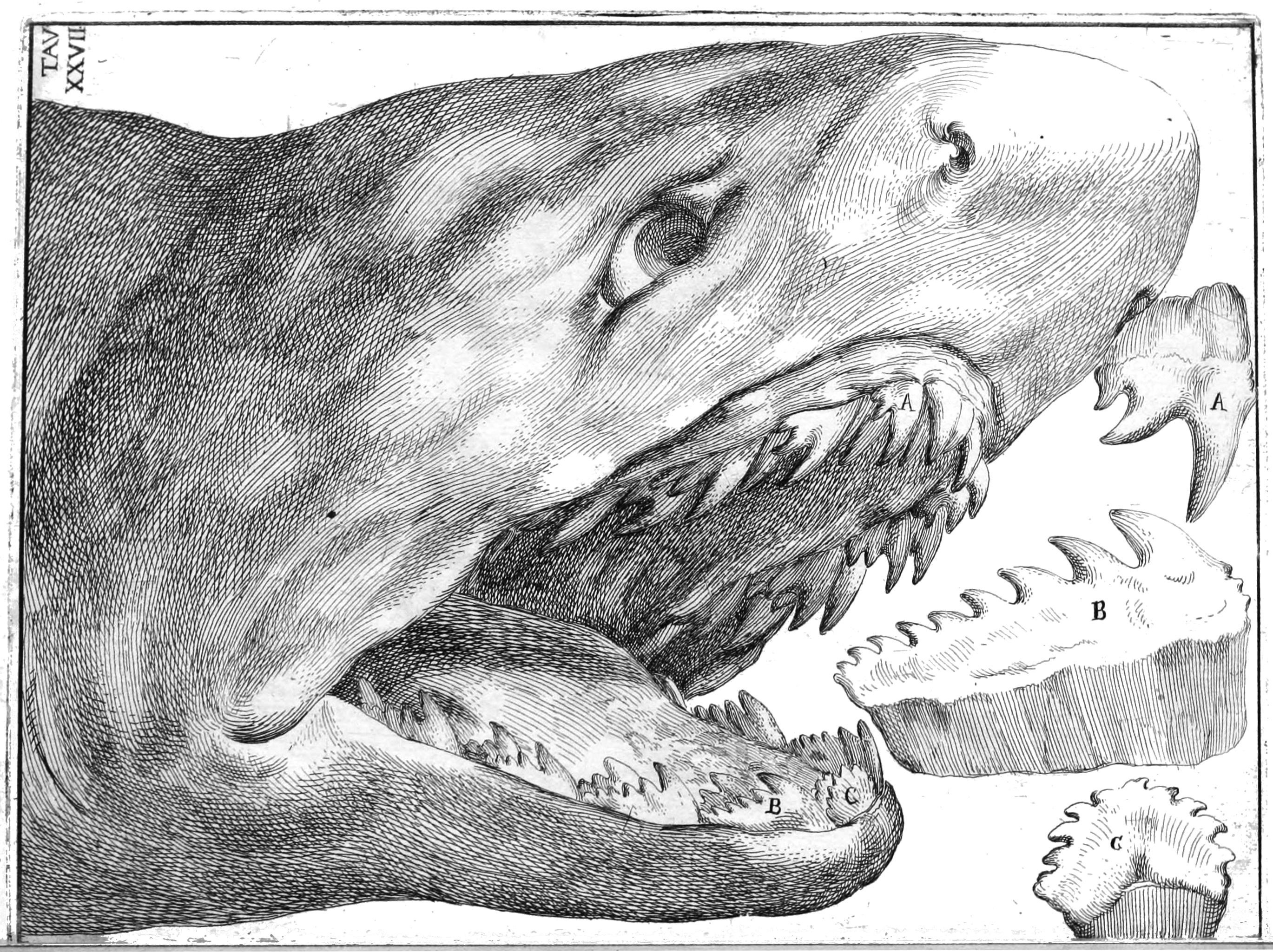 Plate from La vana speculazione disingannata dal senso